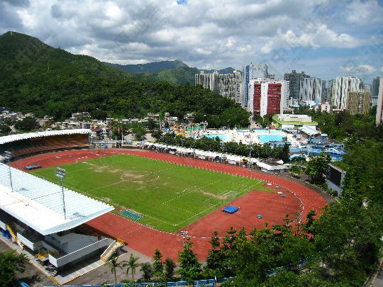 Serenity Park view Tai Po, Hong Kong